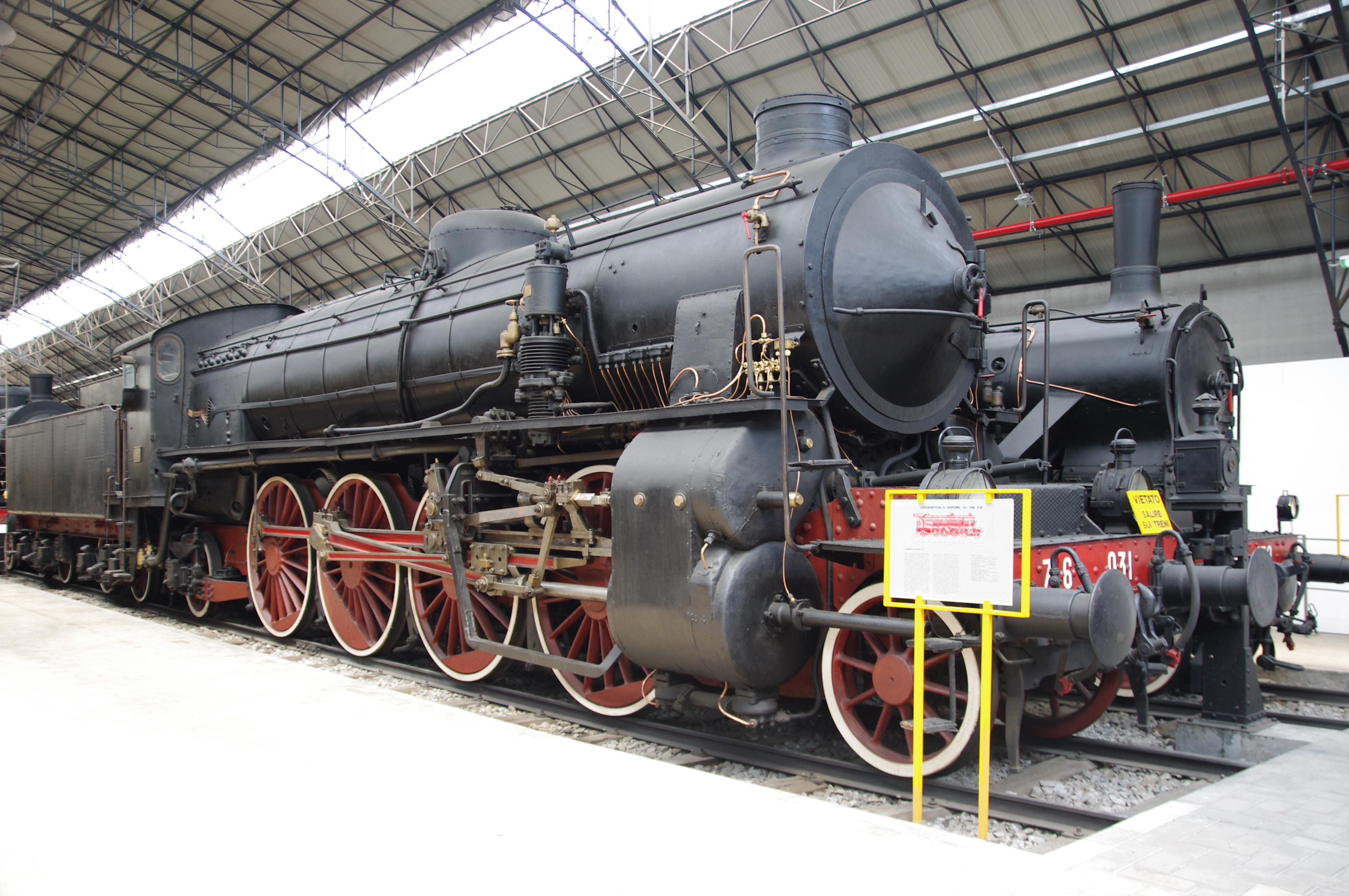 Locomotive 746.031 in National Museum of Science and Technology Leonardo da Vinci in Milan